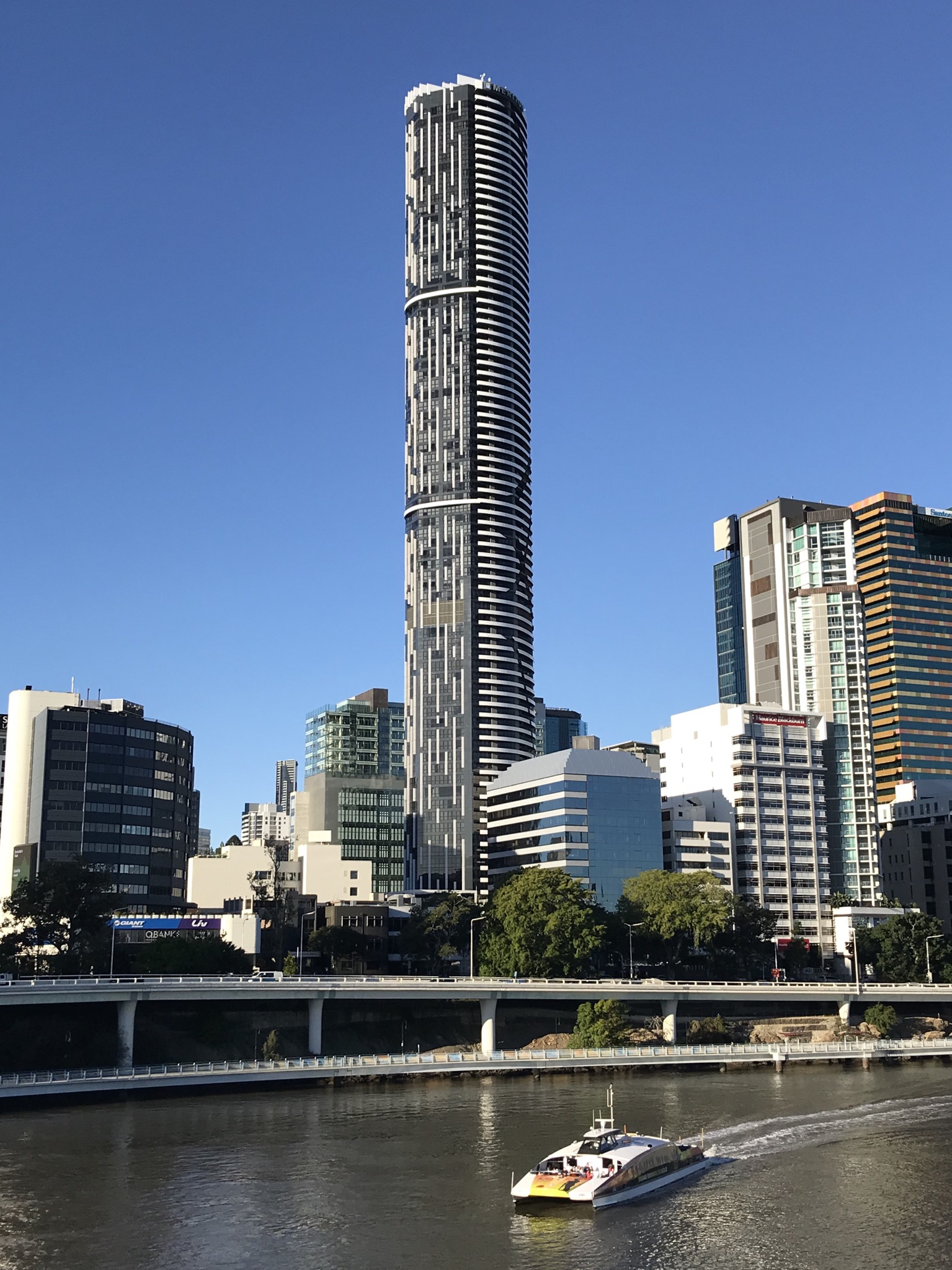 Infinity Tower, seen from William Jolly Bridge, Brisbane